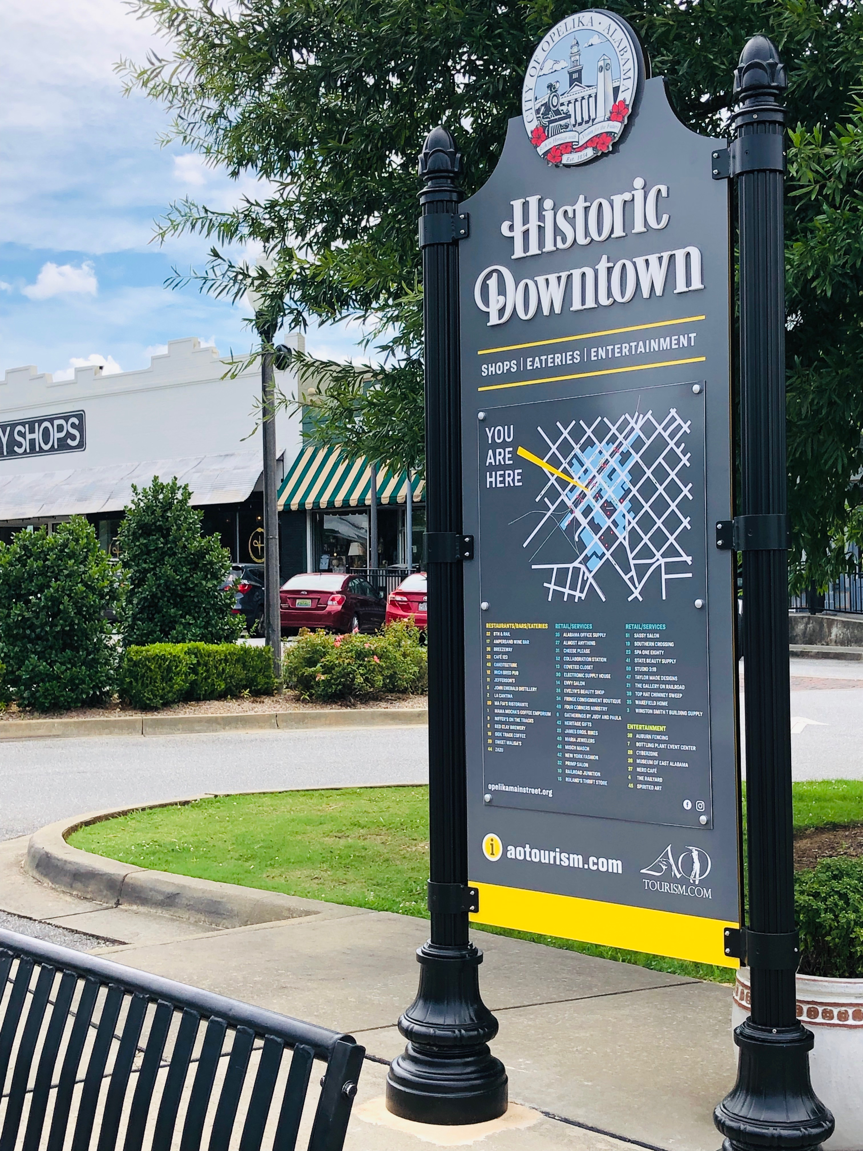 Historic Downtown Marker